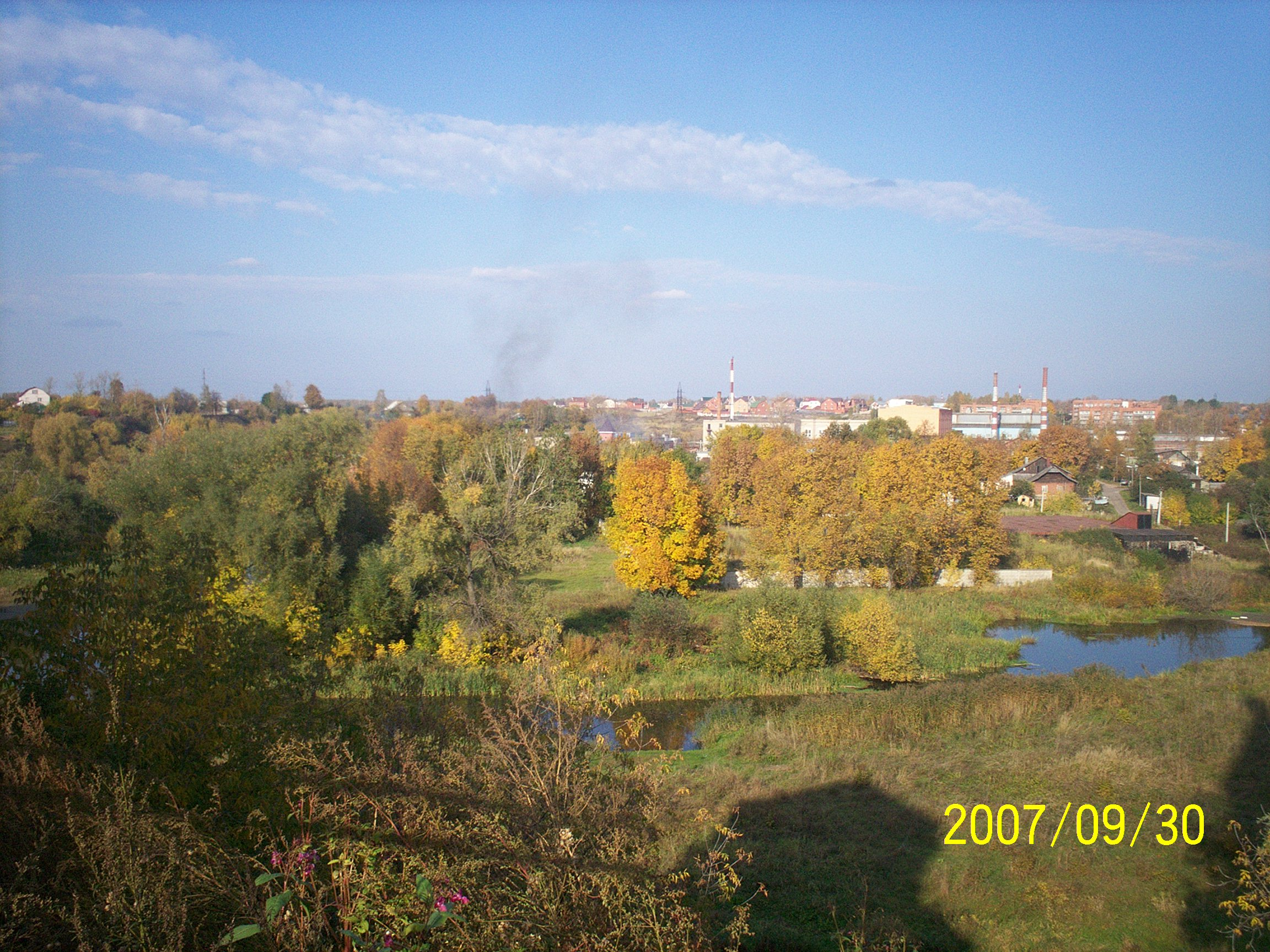 View over river and north-eastern part of Klin